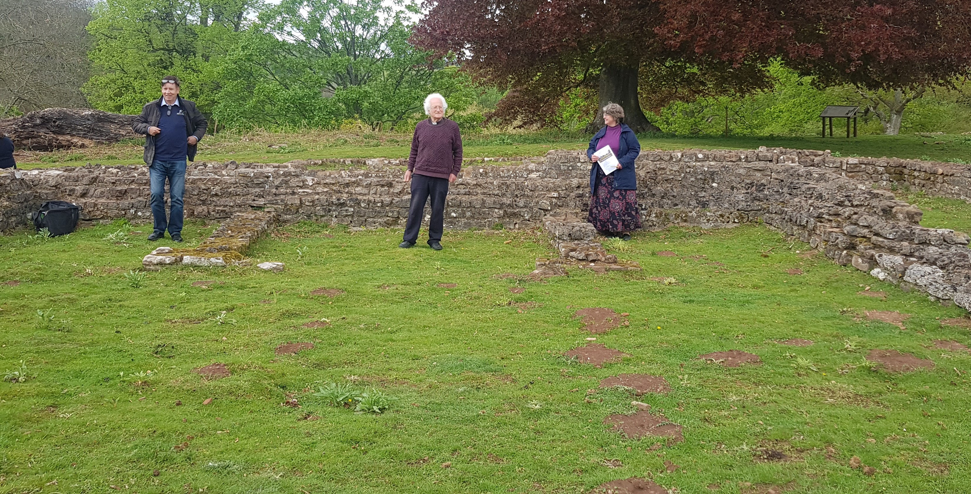 Lydney Roman temple; the tripartite cella, each part with a seated luminary of the Association for Roman Archaeology